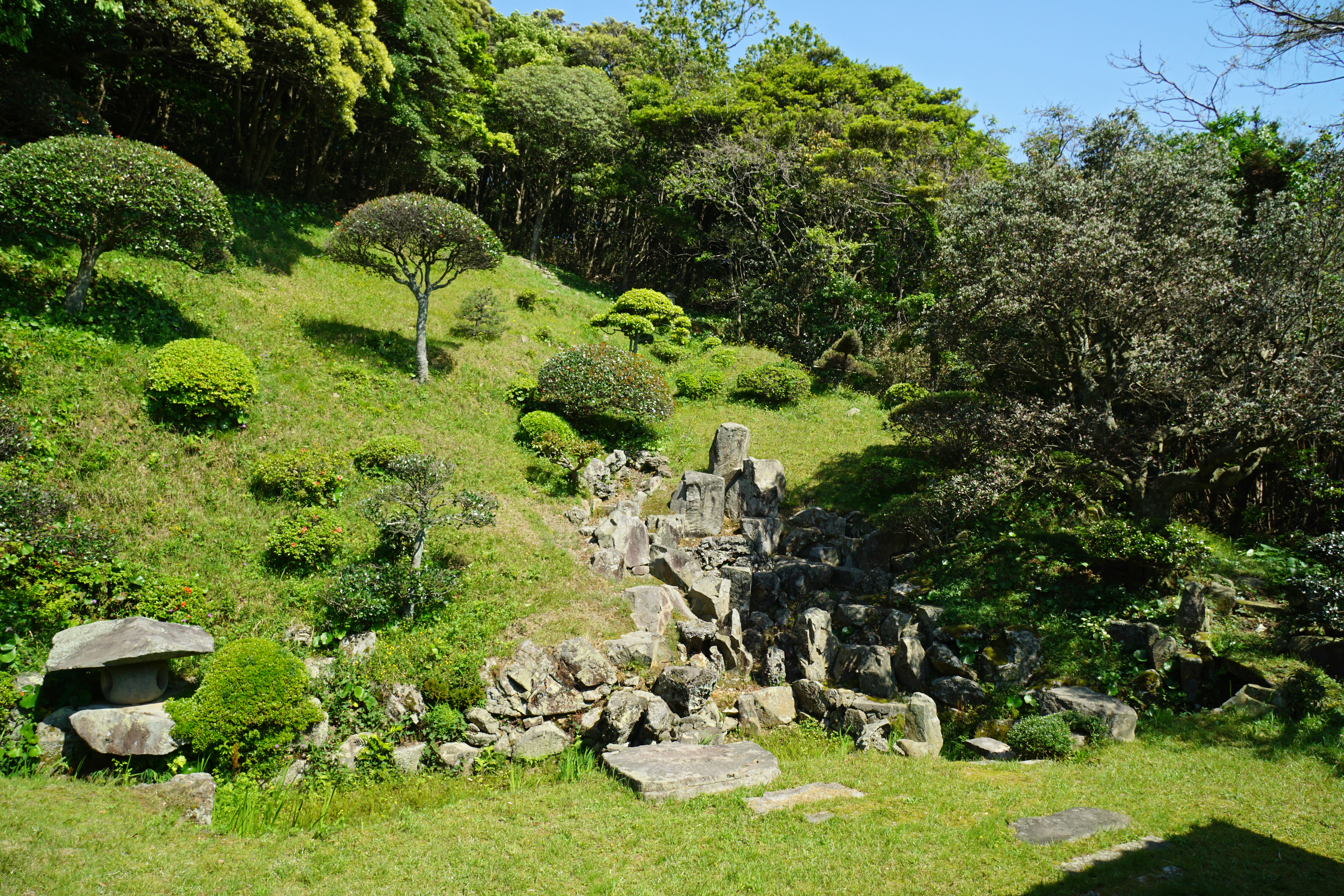 Ogawa-ke_Sesshu_Garden, Gotsu, Shimane prefecture, Japan